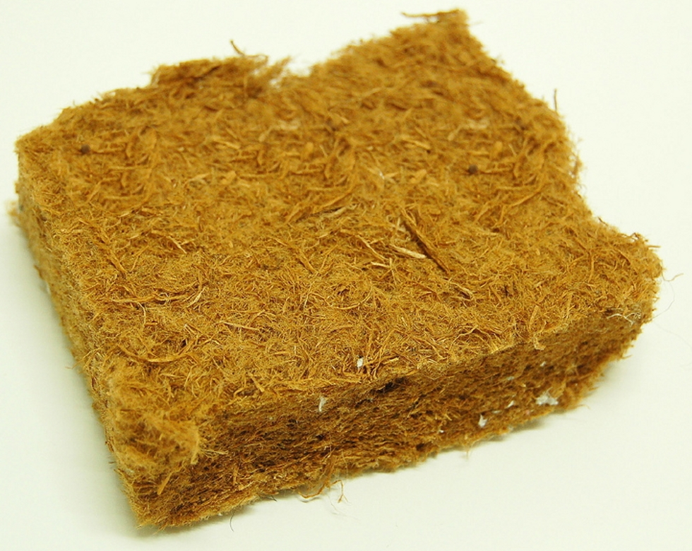 STEICO flex Wood fibre insulation (Holzfaserdämmstoff) "As a sustainable building material, wood is known for its excellent qualities, both thermal and ecological. STEICOflex, has combined decades of experience and innovative engineering processes in order to take advantage of the natural insulation properties of wood as a raw material. By using STEICOflex the einvironmentally-friendly, wood based insulation one makes an immediate contribution to the reduction of CO2 emissions. The raw material for STEICOflex comes from thinnings of surrounding pine forests and from saw mill residue.flex . Our environmental orientation is reflected in the fact that STEICO wood fibre products are certified with the FSC(Forest Stewardship Council). STEICOflex has also been certified with the recently-introduced quality mark natureplus®. " Thermal conductivity = 0.038 W/m2k Wood "Wood shavings have been used for loft insulation in the USA since the 50s. Sawdust can be blown into wall cavities (Finland) where it can also be sucked out and reused when buildings are dismantled. It is important to keep heat generating wiring away from chippings due to the fire risk. Mixing it with limestone will keep vermin away. Boards can be made from compressed waste from wood mills and provide solid wall, loft or floor insulation."